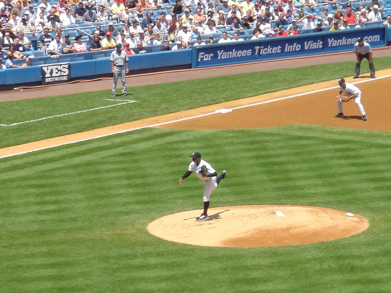 Orlando Hernandez pitching at Yankee Stadium, 2004.